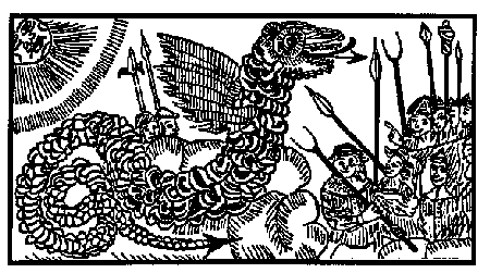 Woodcut of the Henham Dragon, published 1669 in the pamphlet "The Flying Serpent, or: Strange News out of Essex"